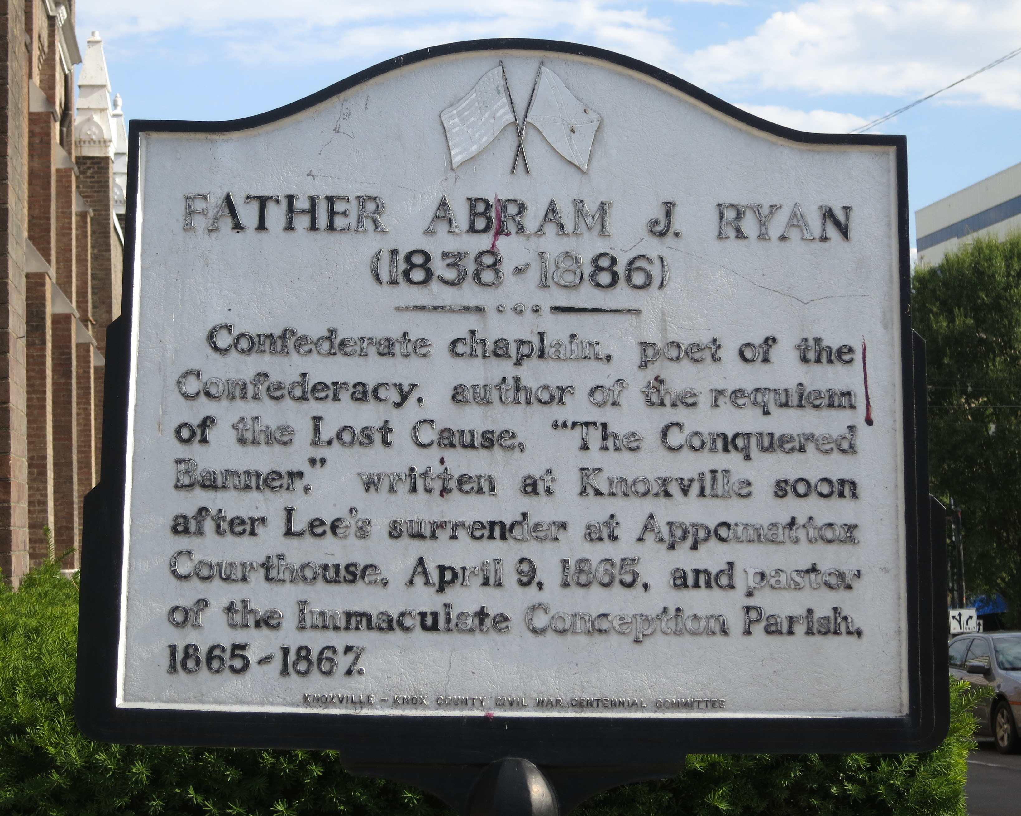 Immaculate Conception Catholic Church (Knoxville, Tennessee) - Historical Marker, Father Abram J. Ryan